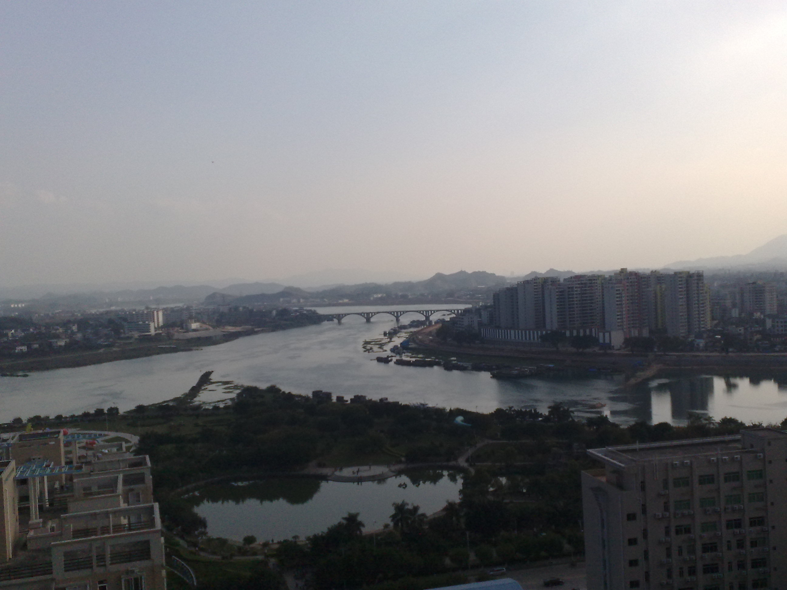 This is the meeting point of Xinfeng Jiang River and Dongjiang River,made on the top of a building.